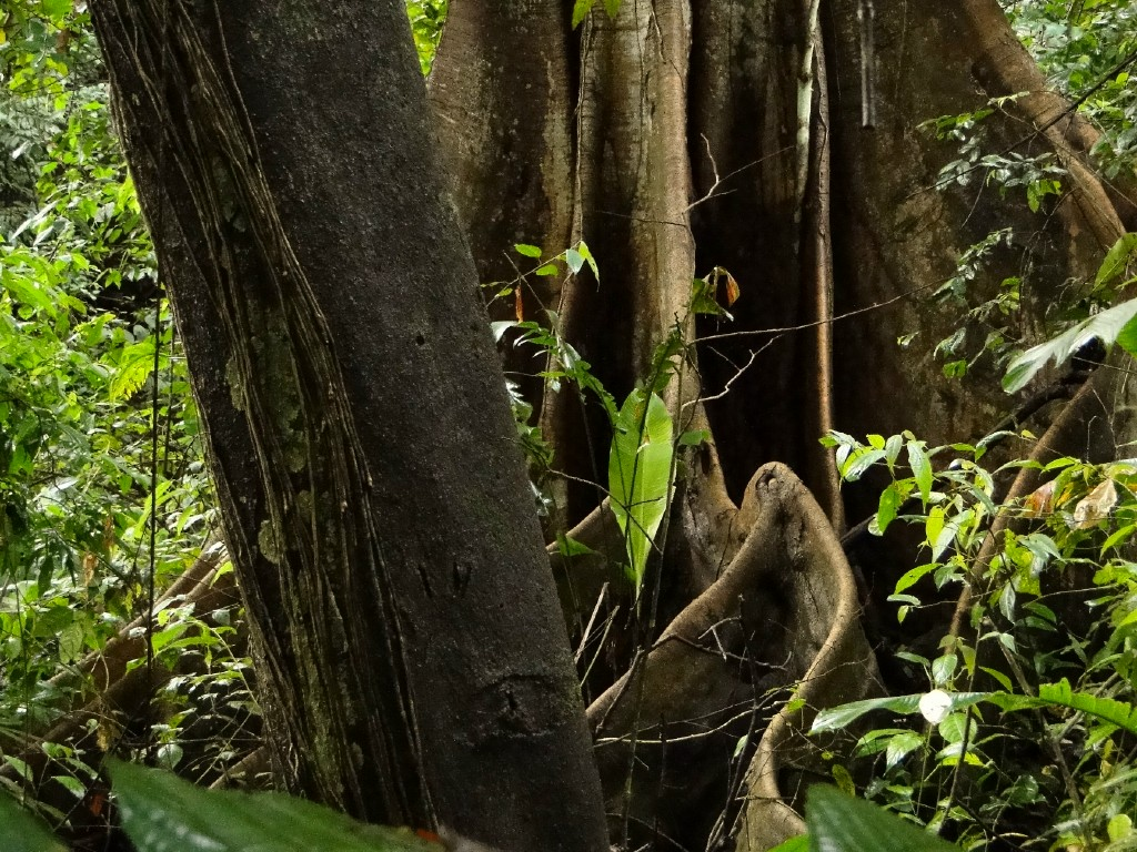 Gyranthera caribensis tree with buttressed roots, Henri Pittier National Park, Venezuela.